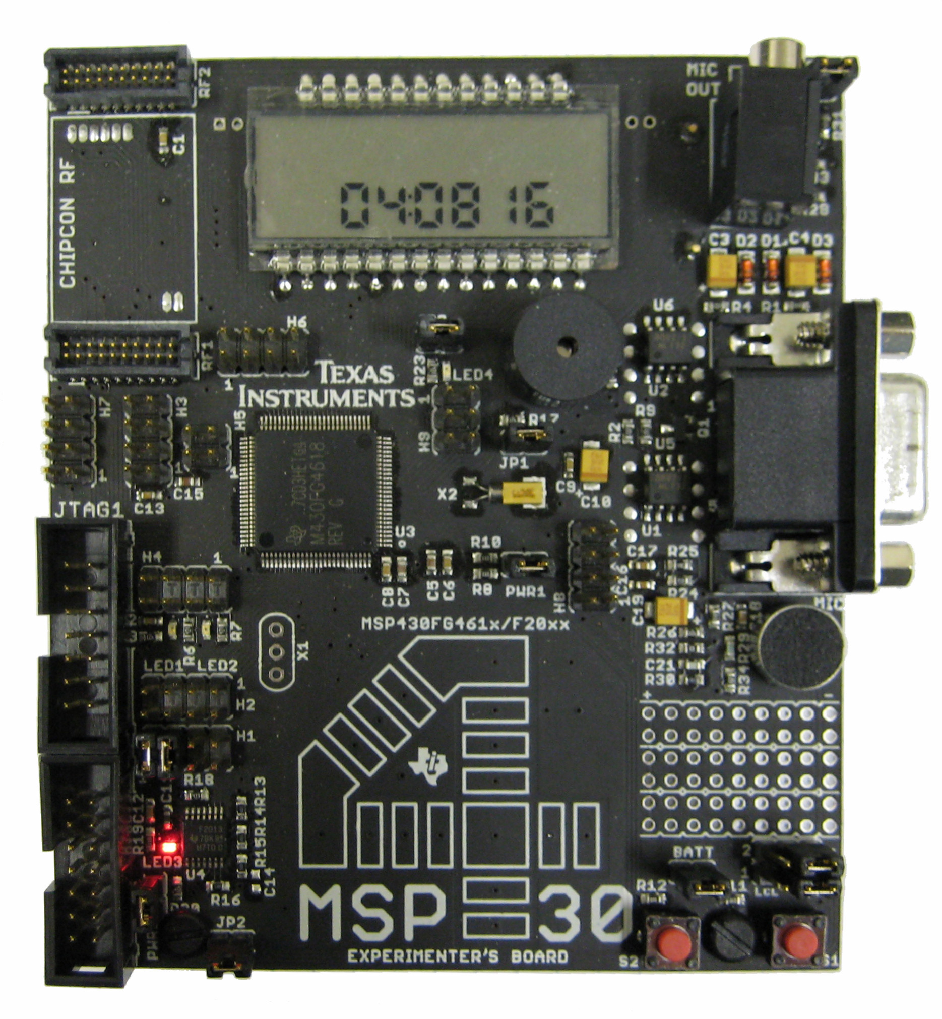 MSP430 Experimenter's Board with MSP430FG4618 chip just left of and above the center of the board